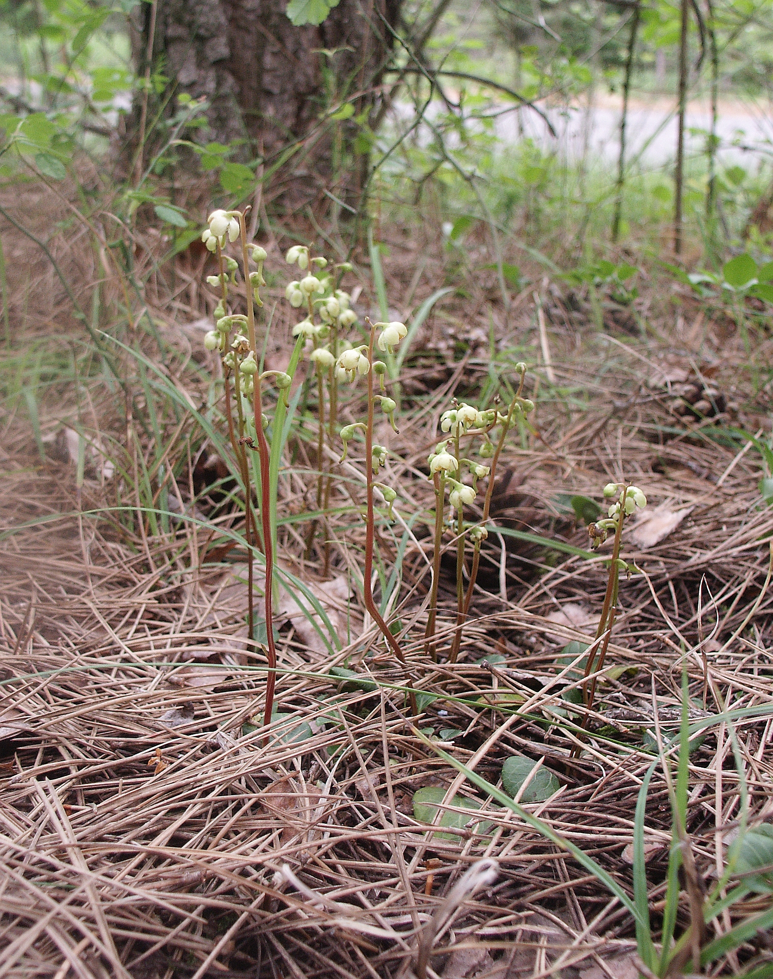 Pyrola chlorantha, Tauberland, Germany